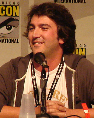 Josh Schwartz at San Diego Comic-Con 2007: Friday, July 27th